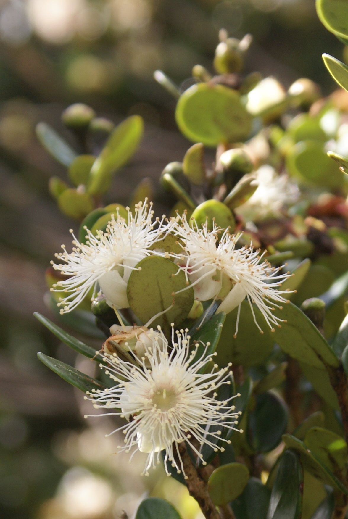 Flowers of Eugenia buxifolia, a species of a small tree endemic to (Réunion island)